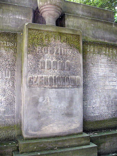 Adam Czerniakov, head of the Judenrat in Warsaw Ghetto, commited suicide rather than cooperate with the Nazis in exterminating Children. His gravestone in Warasaw expresses the gratidude of Warsaw Jews to his action.